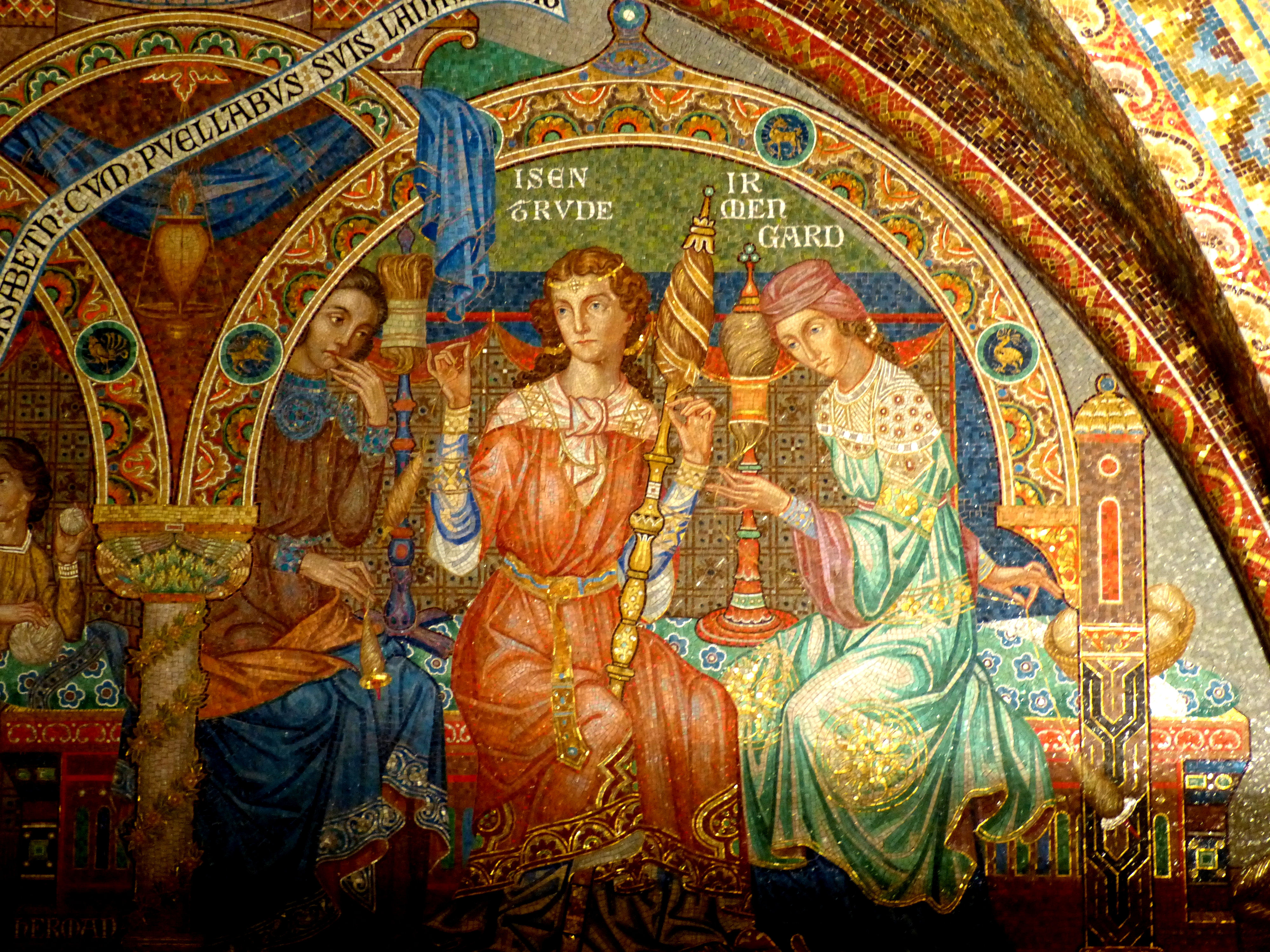 Wartburg ( Eisenach/Thuringia ). Chamber of Elisabeth of Hungary - Life of Elisabeth of Hungary on mosaics ( 1902-1906 ): Elisabeth' s gentlewomen Isentrud of Hörselgau and Irmengard.